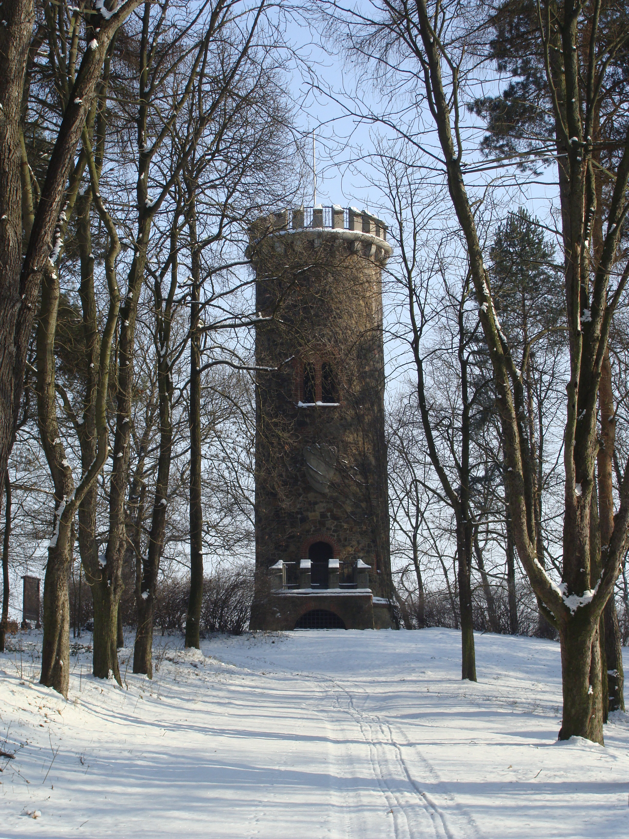 Bismarck tower in Grimma/Höfgen